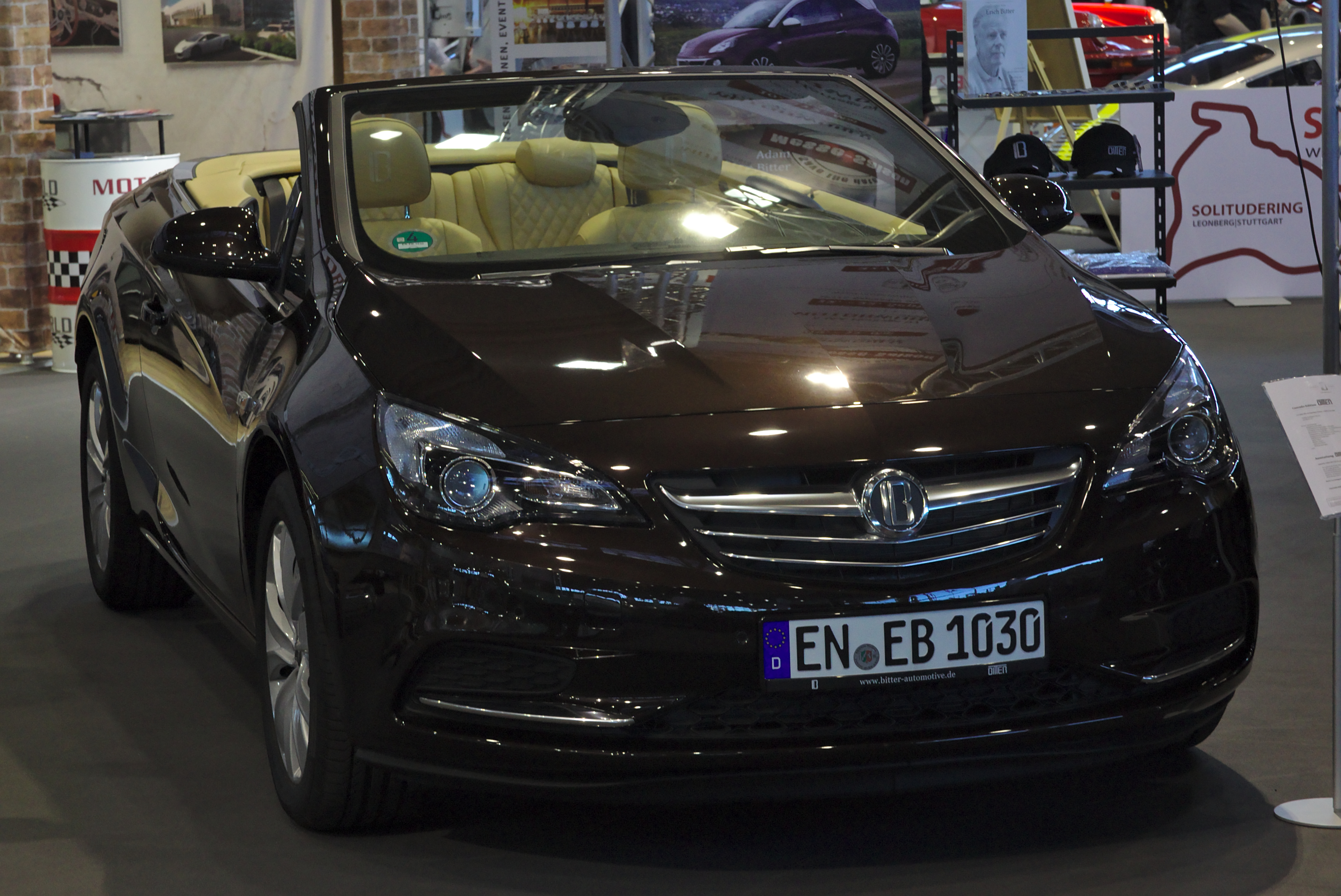 Bitter Cascada at Retro Classics 2019